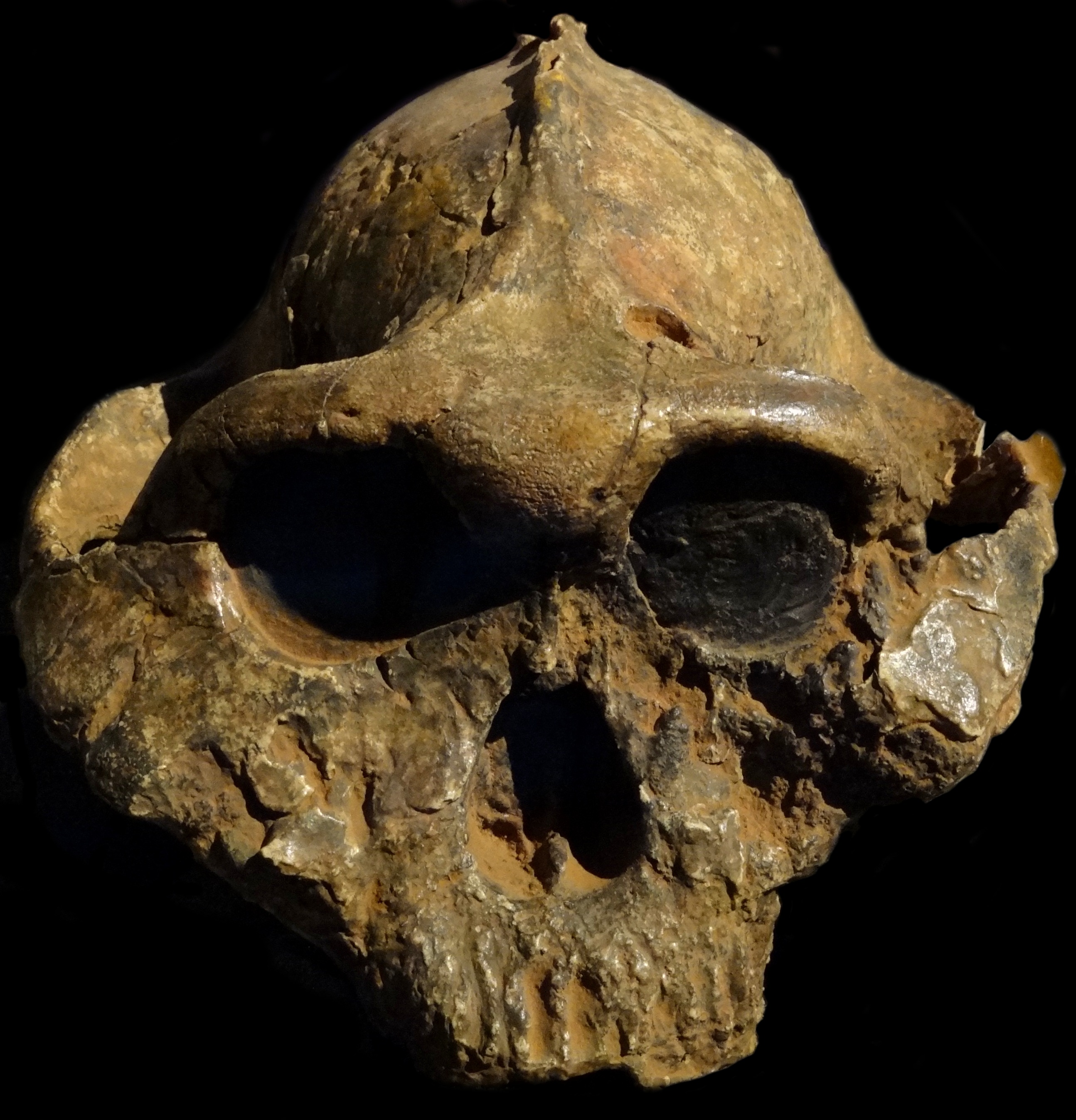 The skull of Paranthropus boisei, known as KNM ER 406, photographed at the Nairobi National Museum in August 2012.